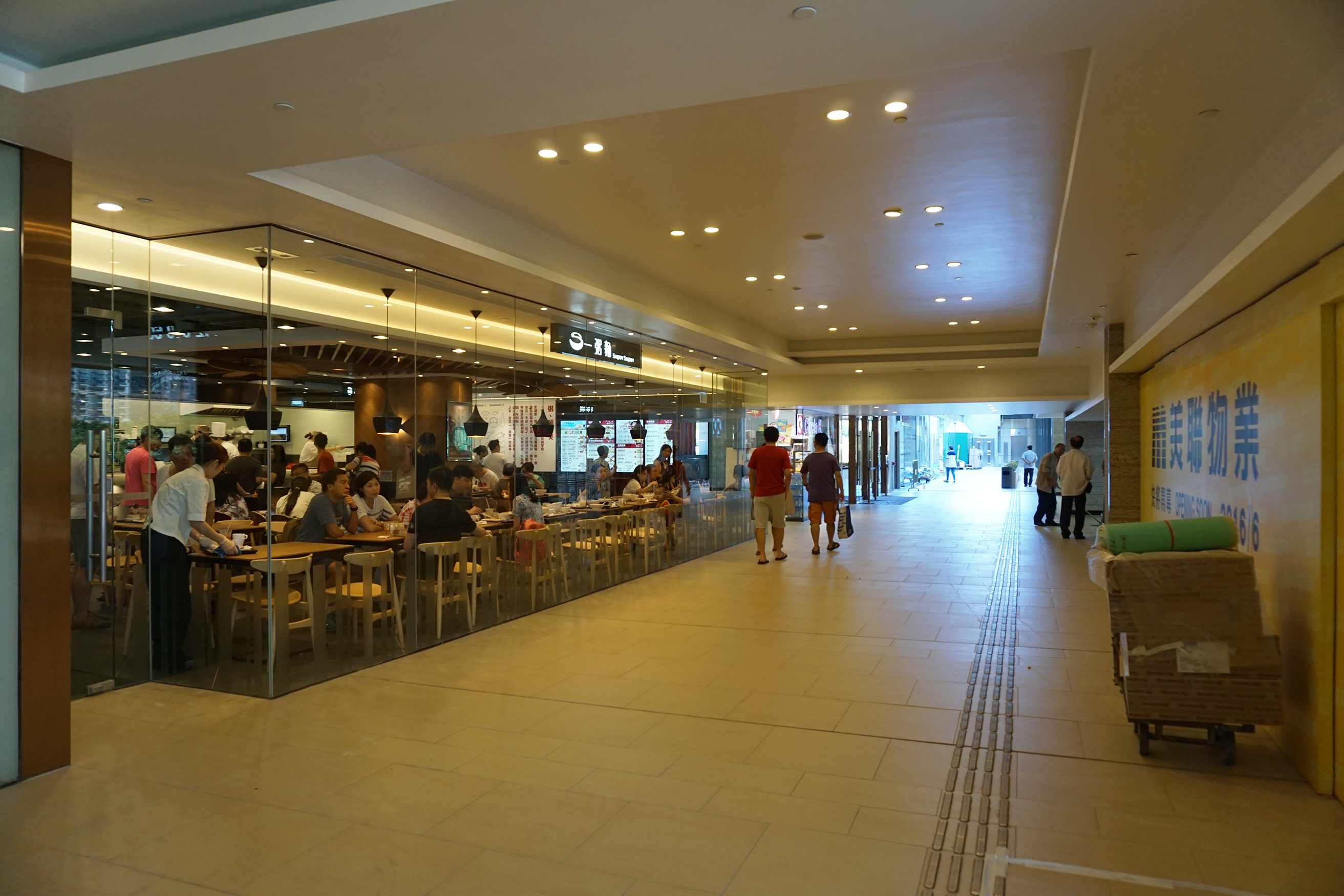 The Visionary in Tung Chung, Hong Kong.